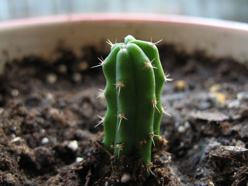 A newly planted Echinopsis pachanoi (San Pedro Cactus) cutting